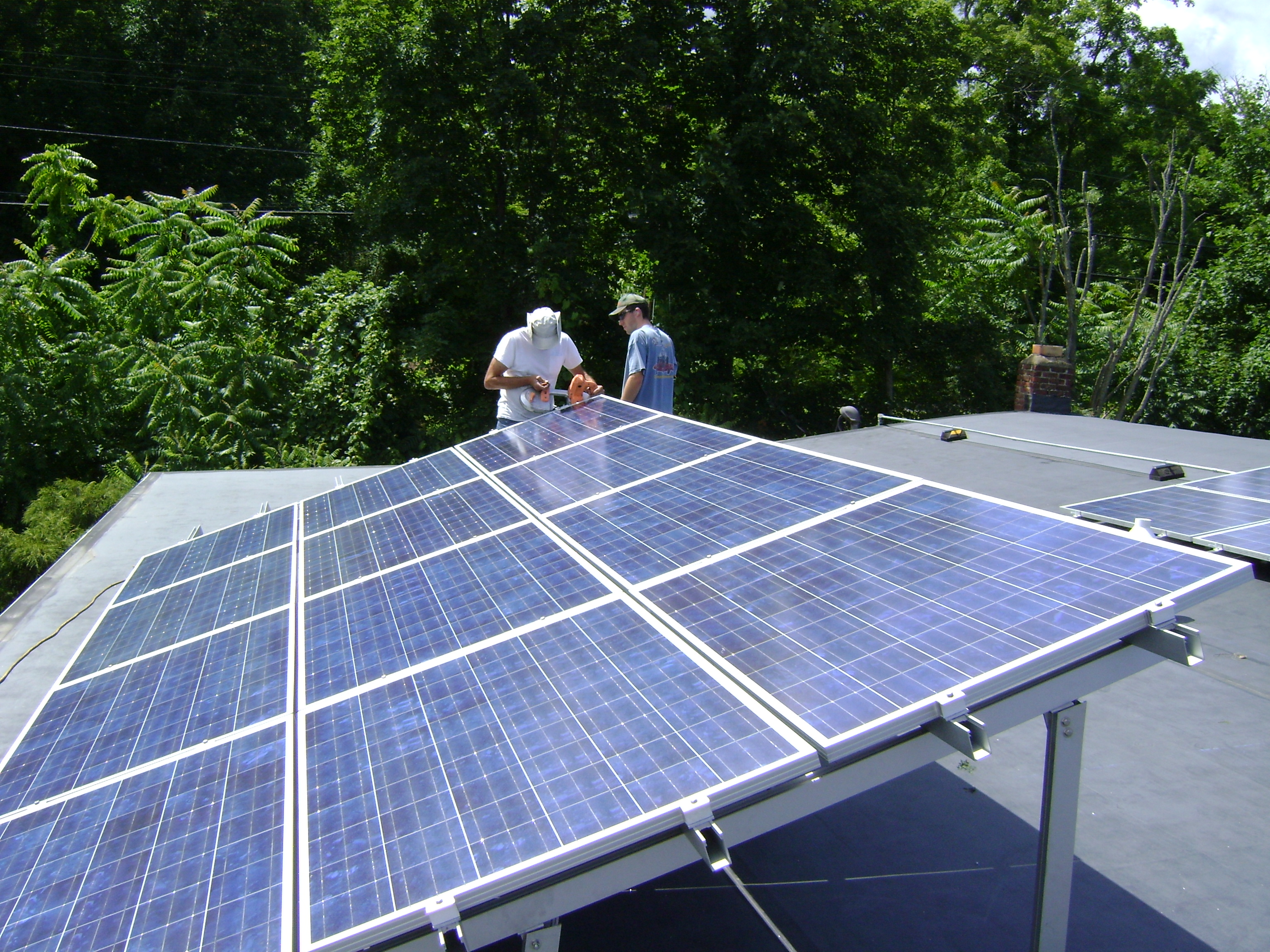 Two workers installing a tilt-up photovoltaic array on a roof near Poughkeepsie, NY.